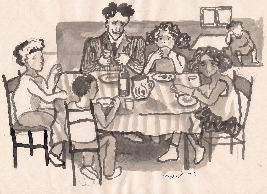 An illustration for the book "A Story that Begins with a Funeral of a Snake" written by Ronit Matalon. 1989. By Ruth Zarfati.